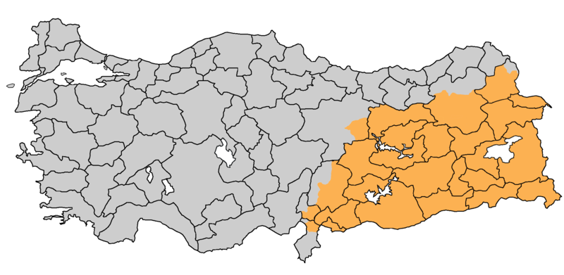 kurdistan of turkeyeh